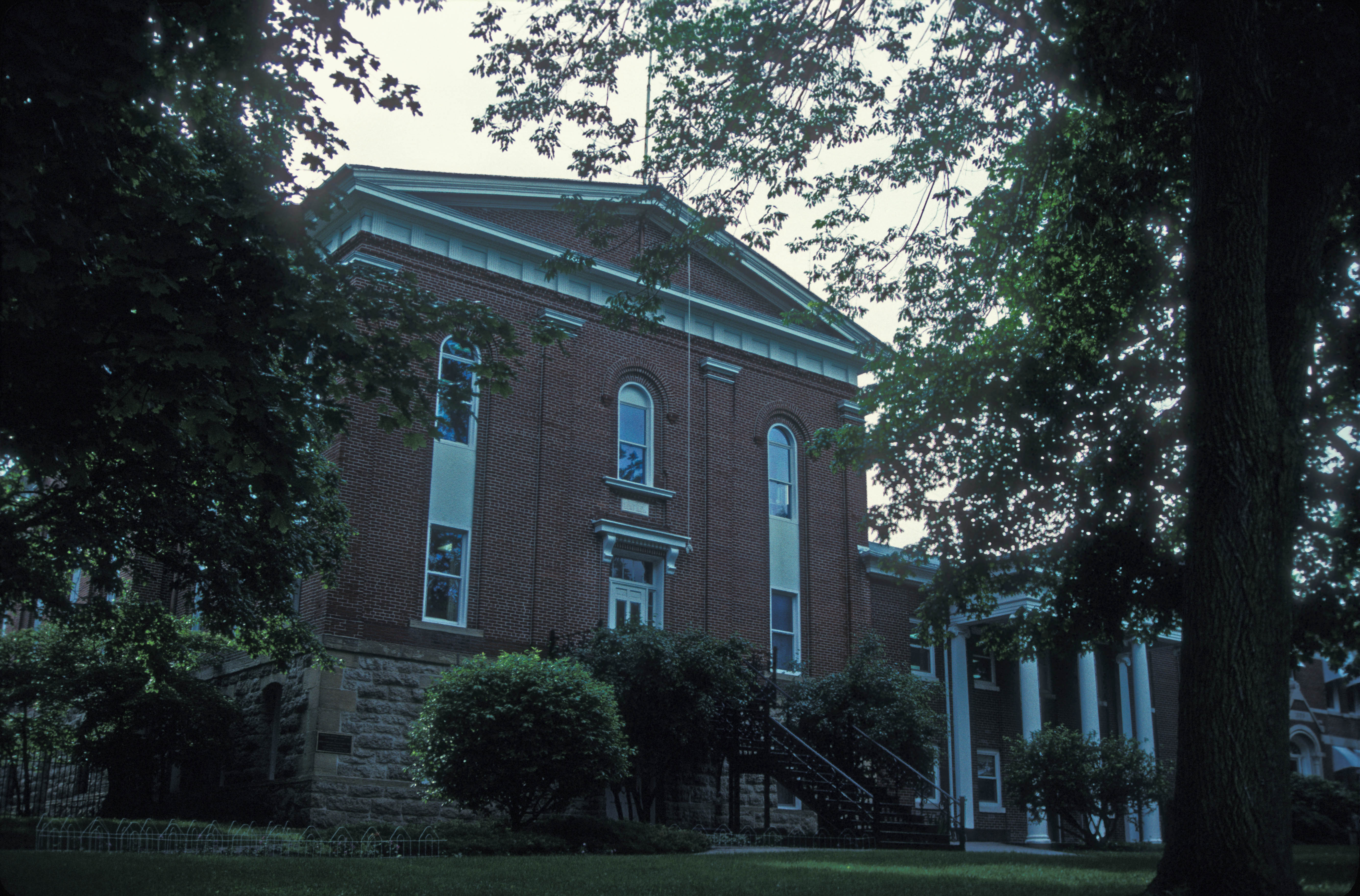 COUNTY COURTHOUSE BUILT 1856-1859 AND USED AS CIVIL WAR BARRACKS FOR THE COUNTY MILITIA